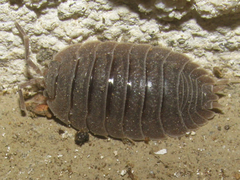 Porcellio dilatatus female. Location: Bouxweerd (The Netherlands)